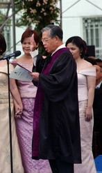 Chief Justice Davide at the 2004 presidential inauguration.